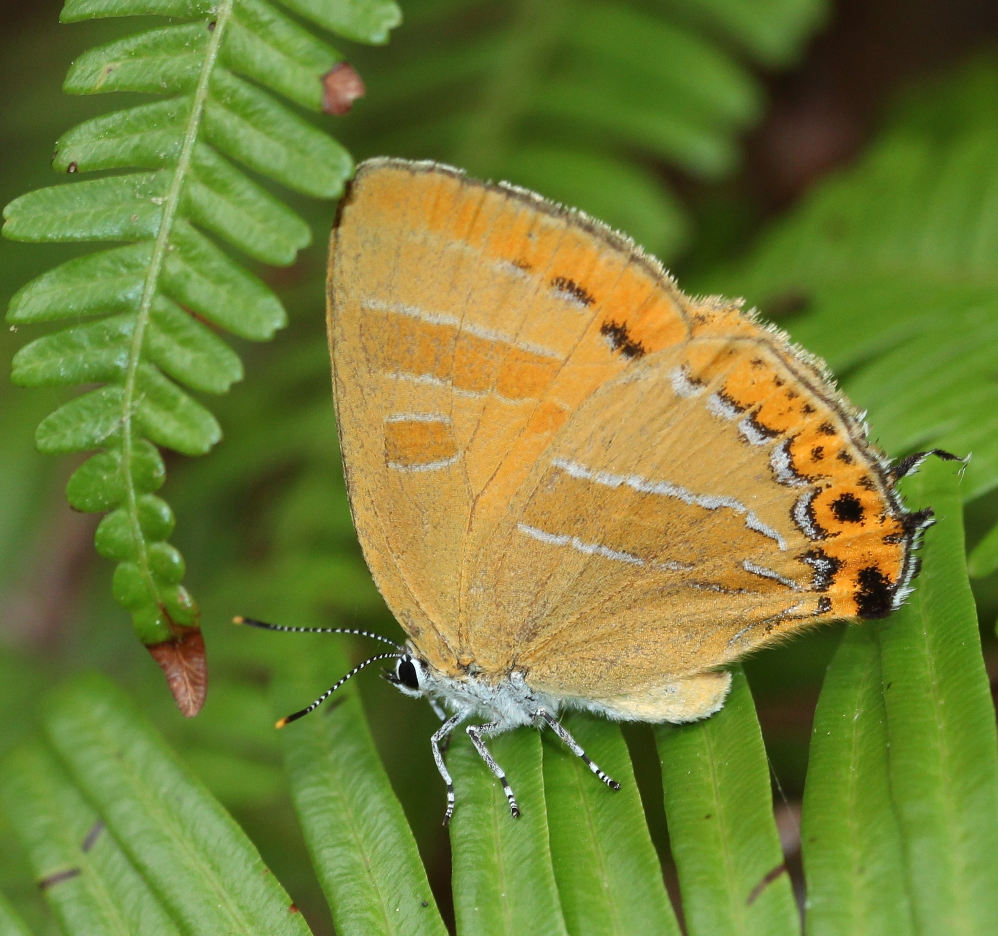 Japonica lutea lutea, in Aichi pref., Japan.